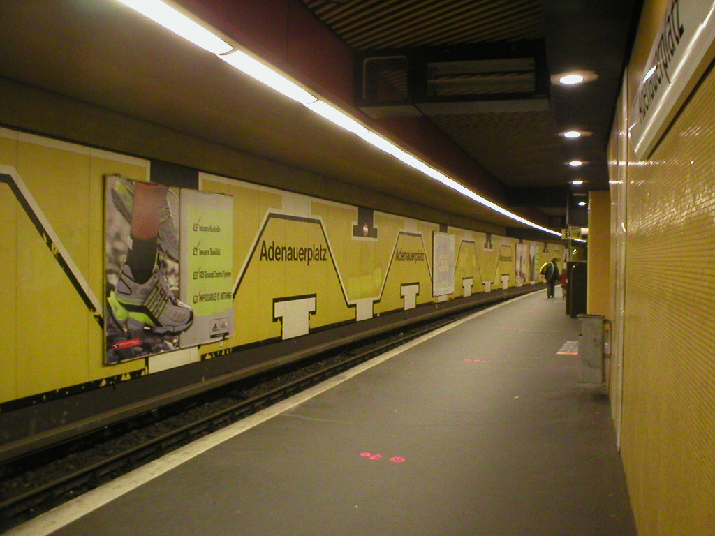 Berlin's undergroudn station Adenauerplatz before the renovation in 2005